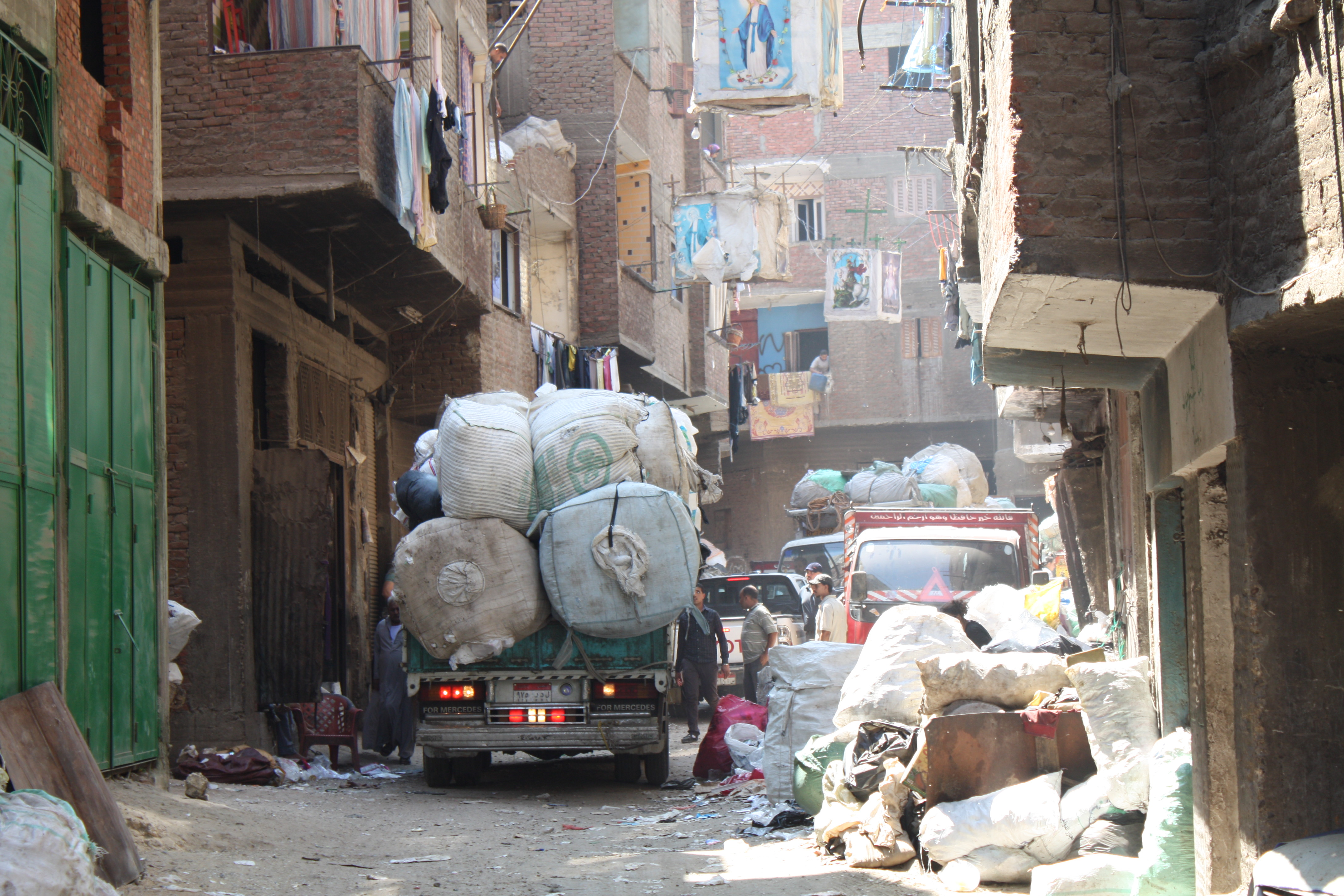 A garbage truck driving through the Streets of Manshiyat Nasser, Mokattam, Cairo, Egypt, where the Zabbaleen people are recycling the waste